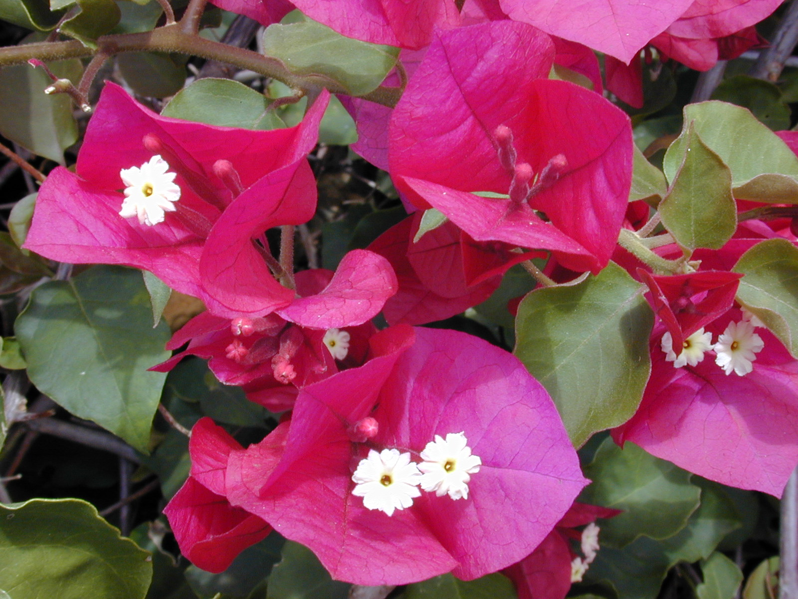 Bougainvillea spectabilis (flowerings). Location: Maui, Kula